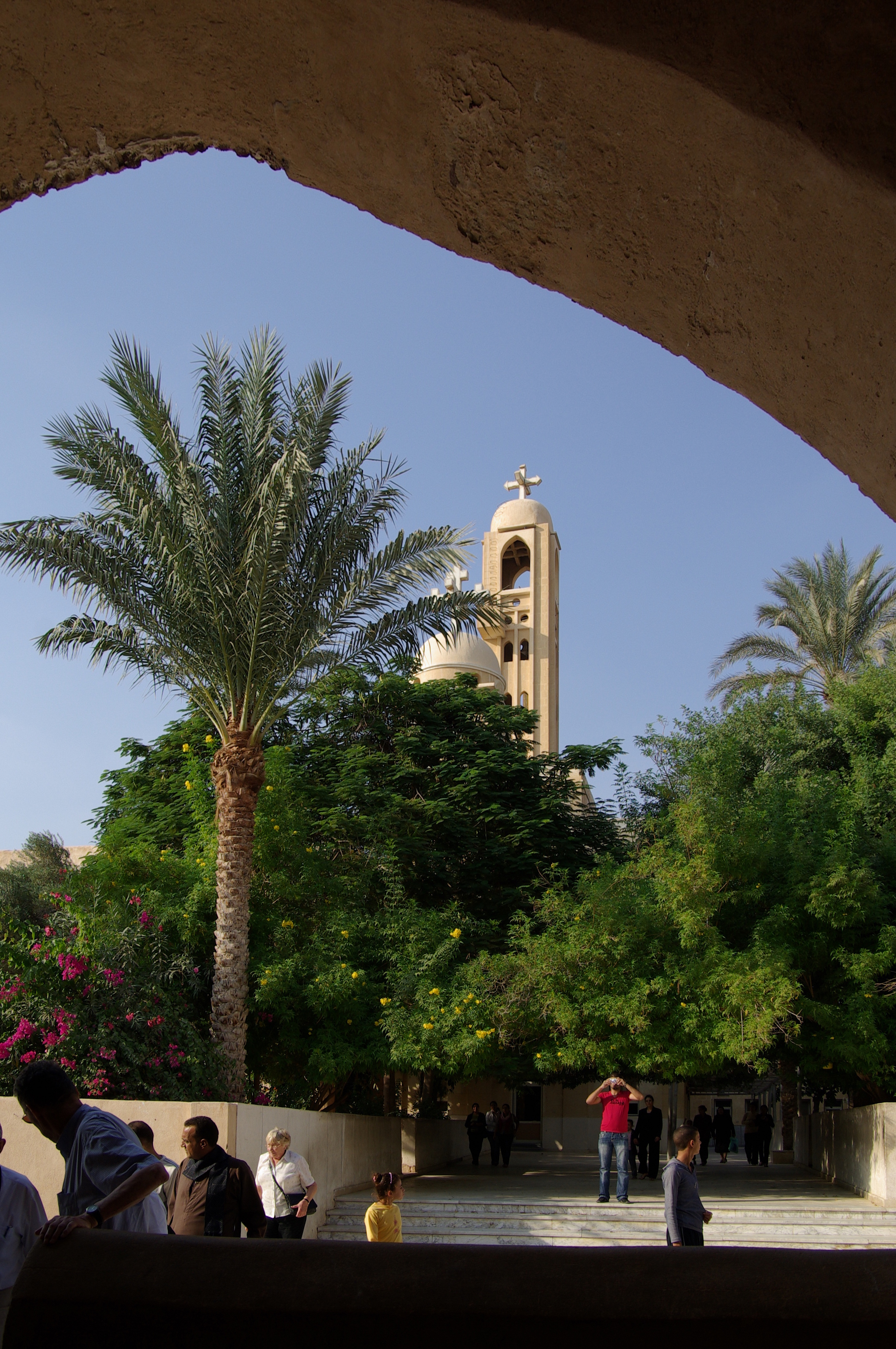 Monastery of Saint Bishoy, Wadi Natrun